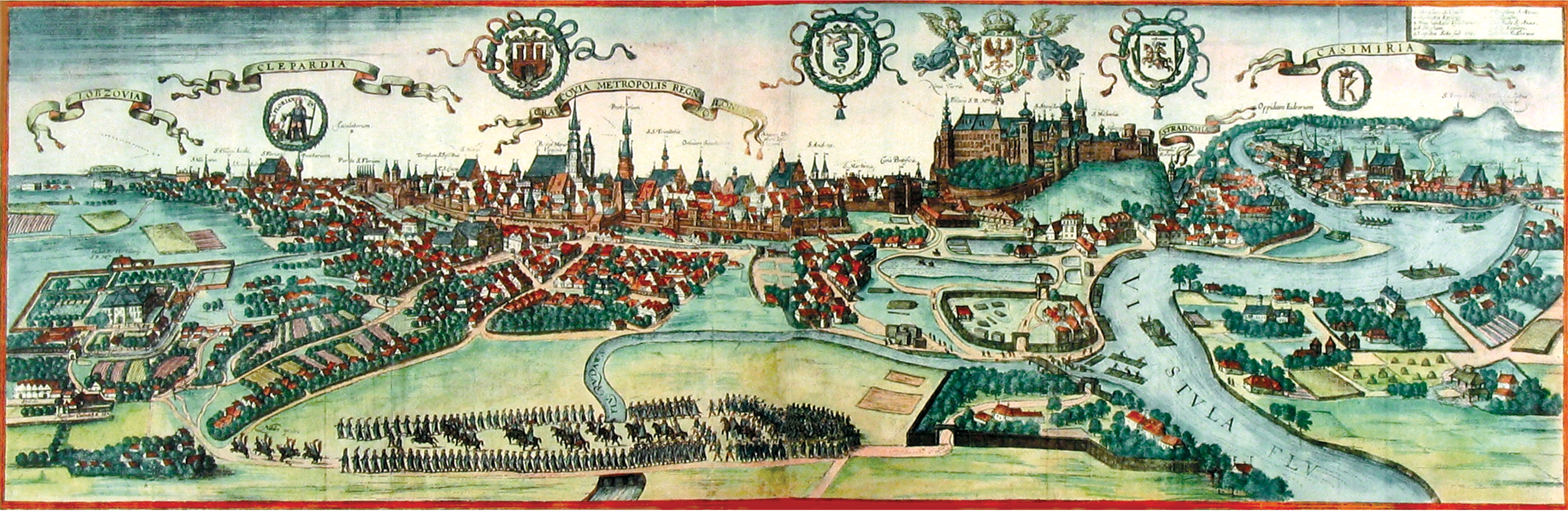 Civitates Orbis Terrarum: view of Cracovia (Cracow) near the end of the 16th century.